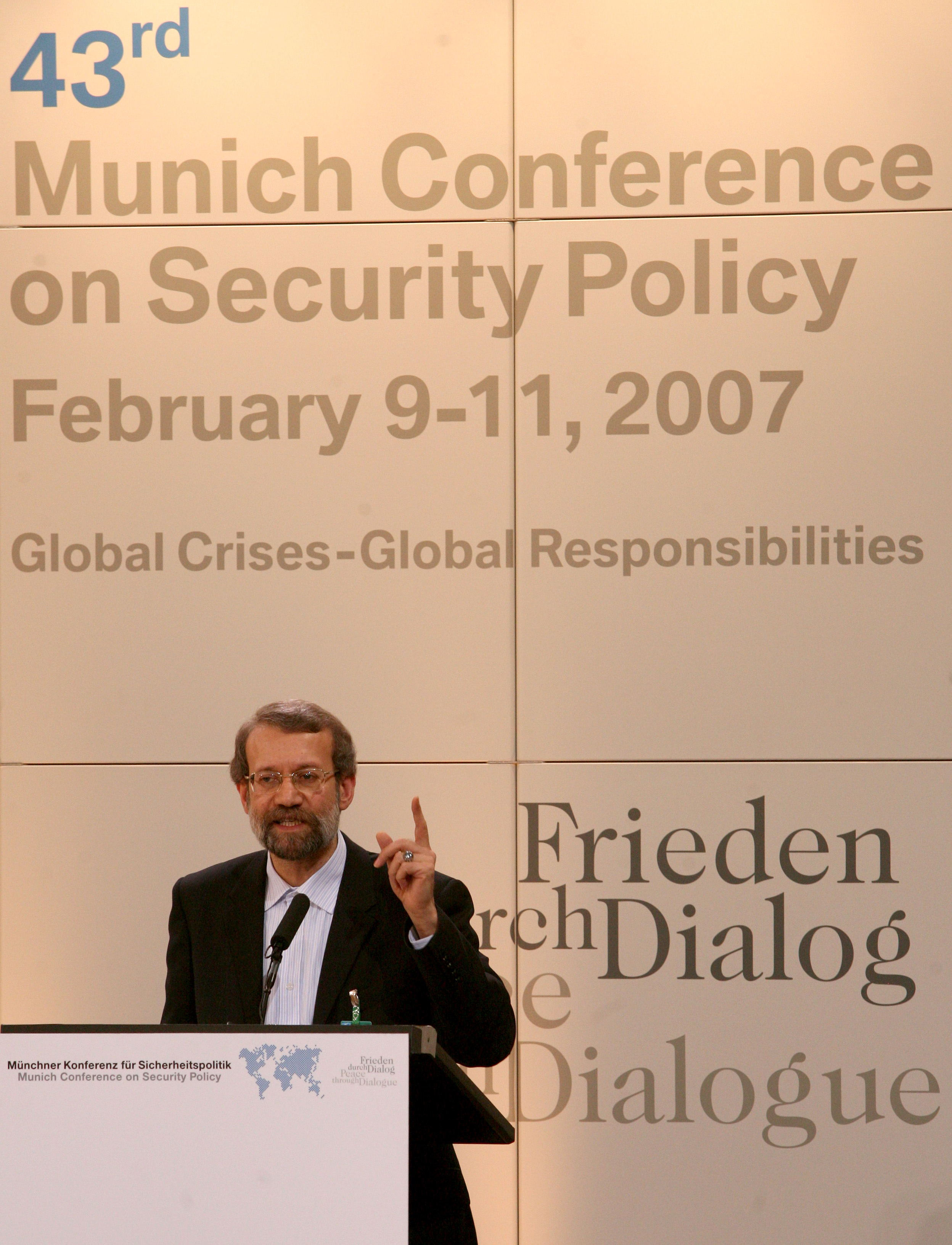 43rd Munich Security Conference 2007: Dr. Dr. Ali Larijani, Secretaryof Supreme National Security Council, Islamic Republic Iran.